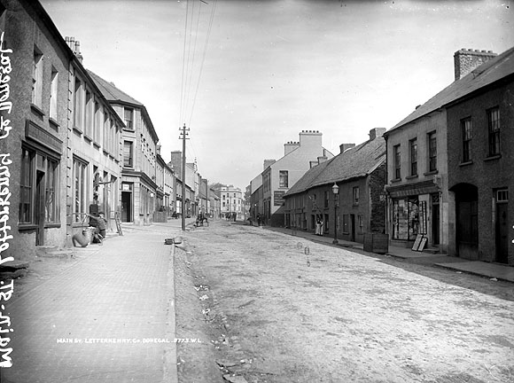 Main St. Letterkenny, Co. Donegal, Ireland c.1880-1900